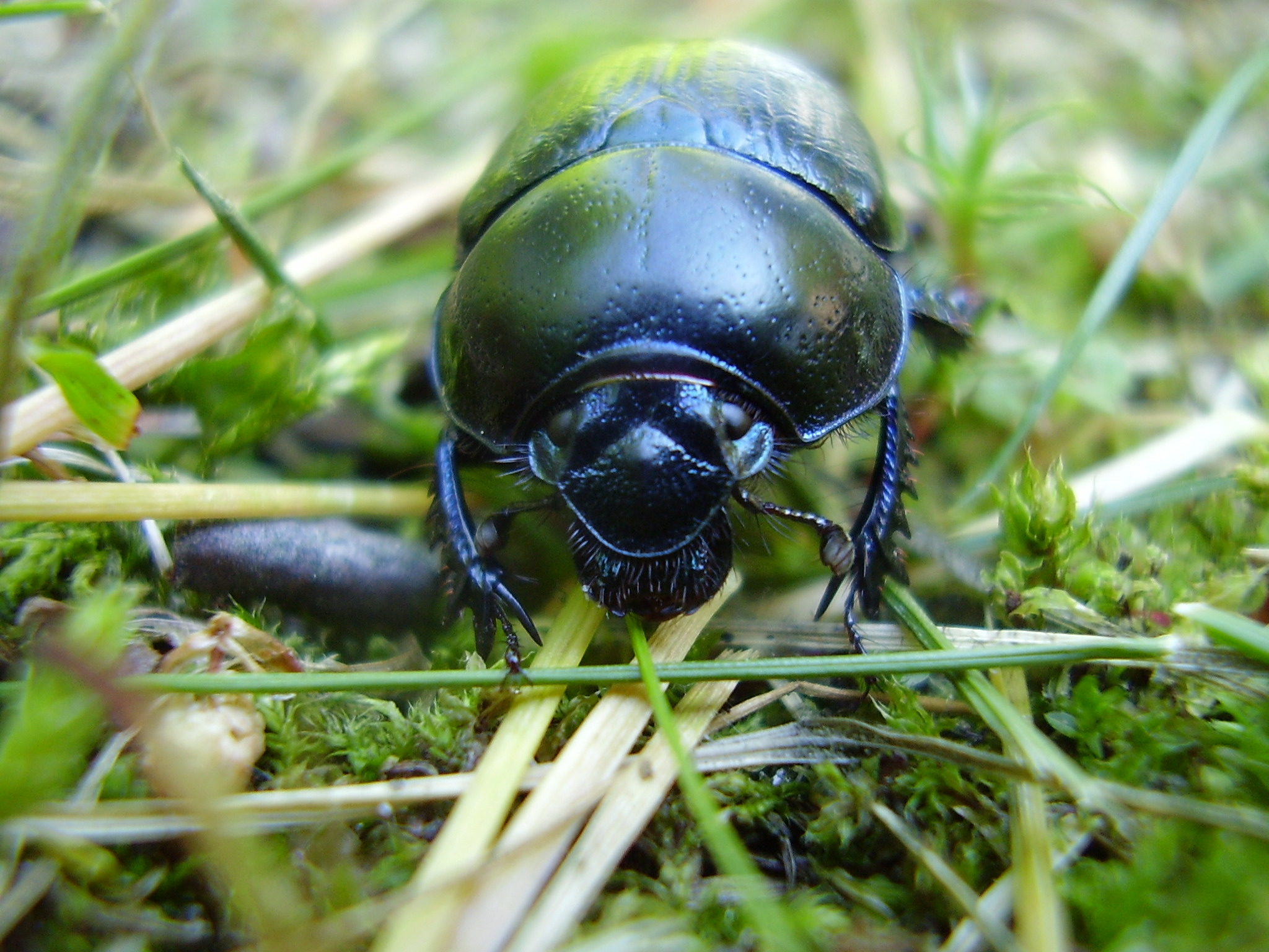 Anoplotrupes stercorosus Photo taken by Käyttäjä:kompak (4th of July 2005)